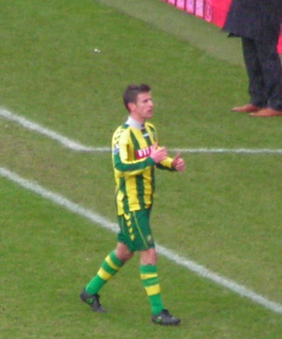 Richard Knopper is a Dutch football.